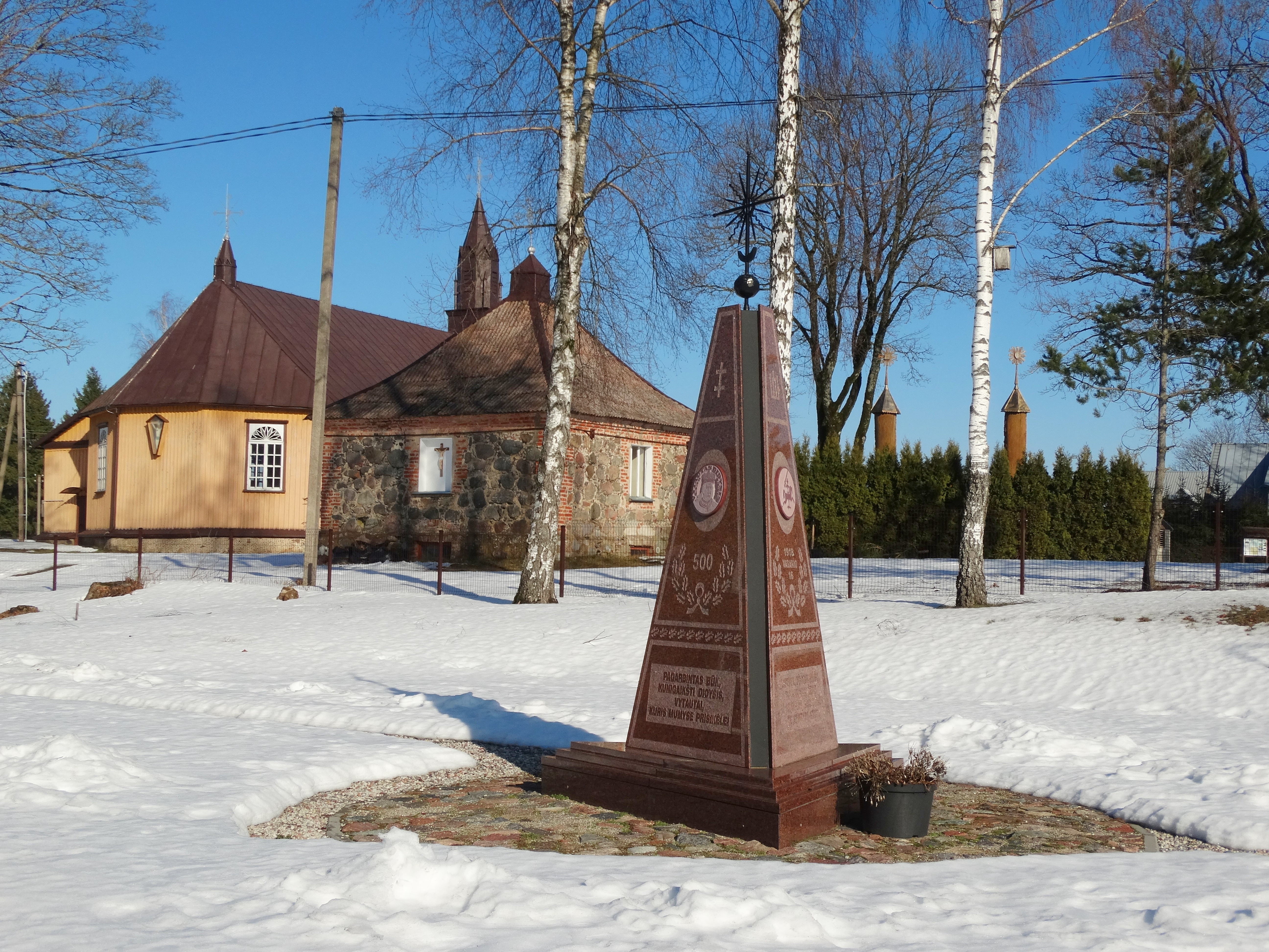 Monument to Vytautas the Great, Tūbinės I, Šilalė district, Lithuania